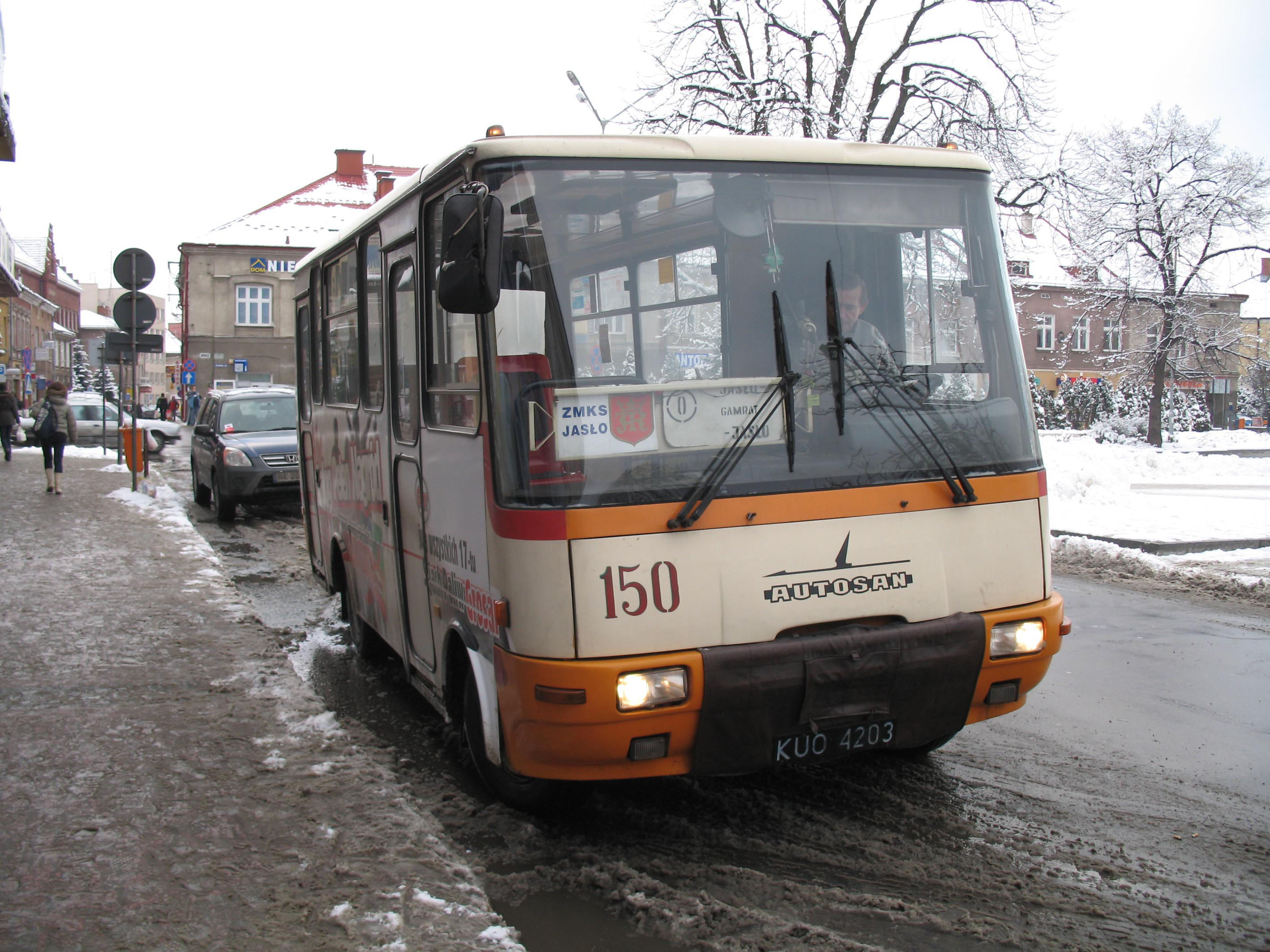 Autosan H6-20 bus (#150) in Jasło, Poland. Built 1998, ZMKS Jasło operator.